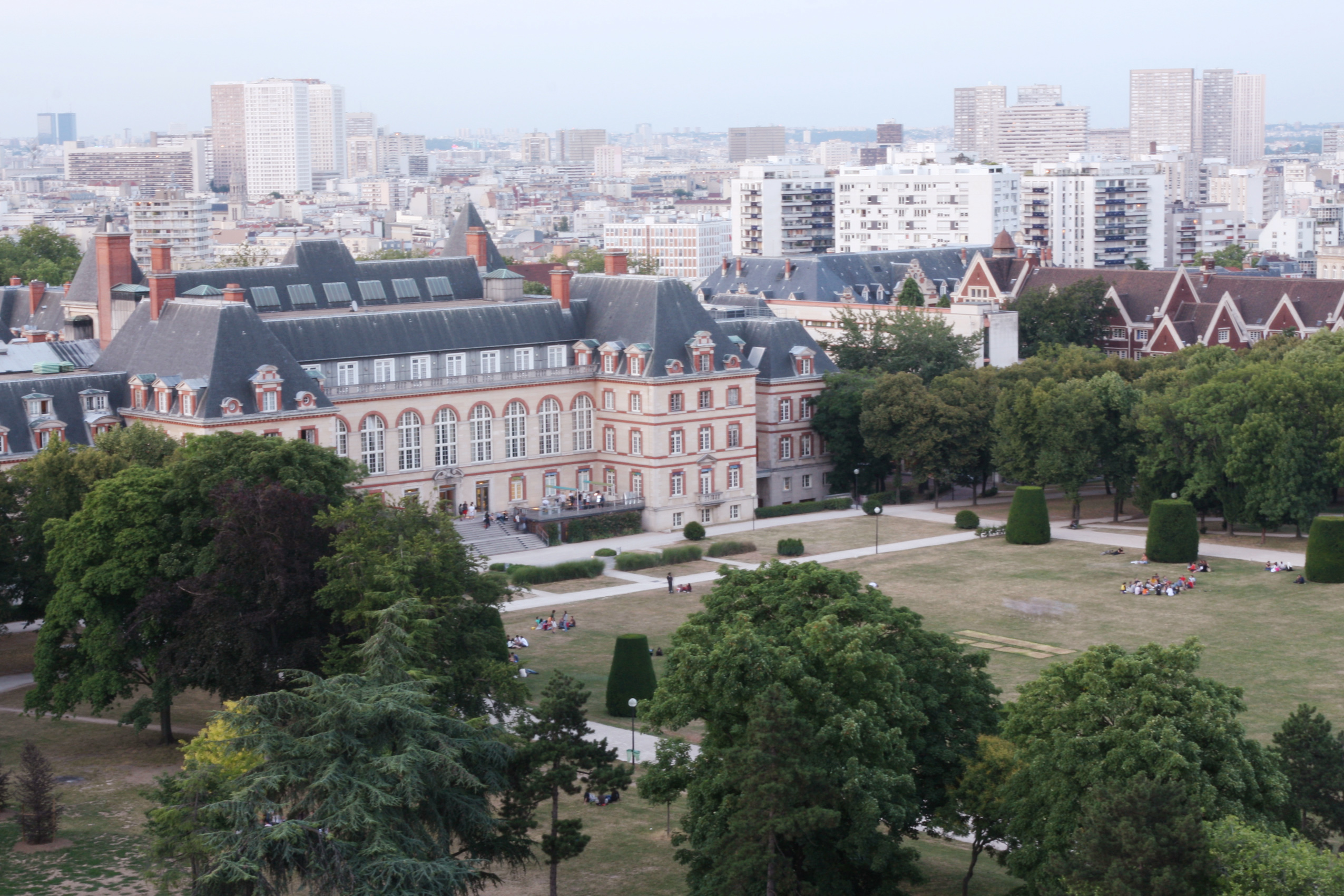 View of the international house at the Cité Internationale Universitaire de Paris